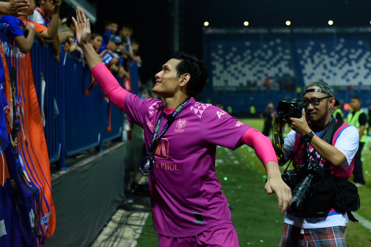 Ukrit Wongmeema after the Thai FA Cup Final 2019 vs Port FC